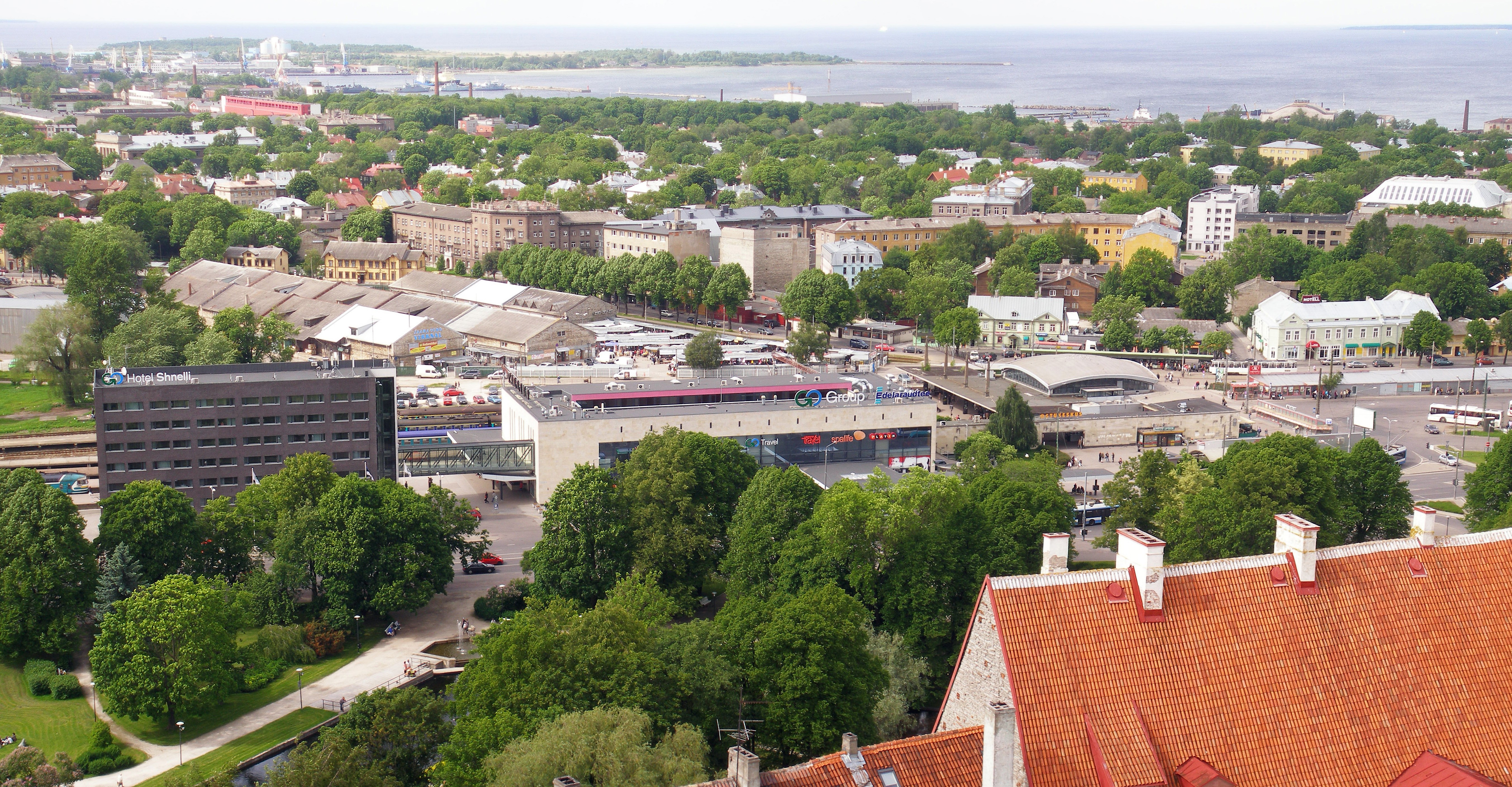 Balti jaam, Tallinn, Estonia.